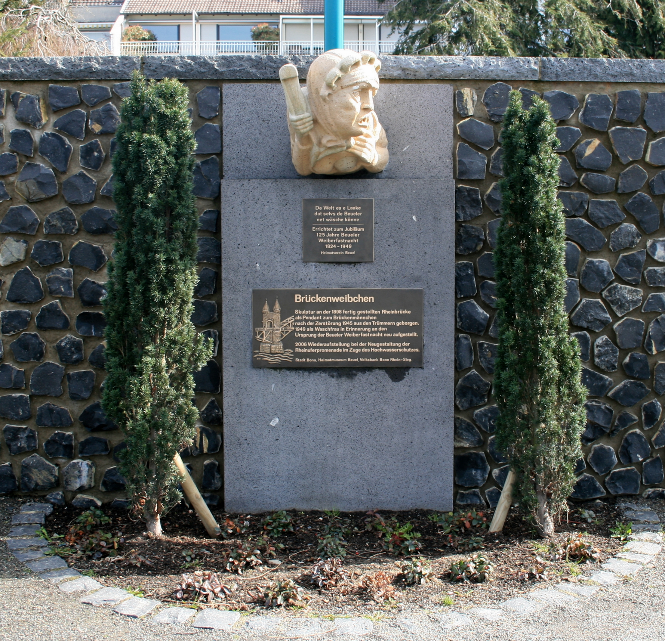 Germany, Bonn: The "Brückenweibchen" ("bridge female") on the flood protection wall in right-bank district of Bonn-Beuel. Originally it was attached to the Beuel side of the old Rhine bridge (the predecessor of today's Kennedybrücke(Kennedy Bridge), analogous to the "Bröckemännche" on the Bonn side of B the bridge.